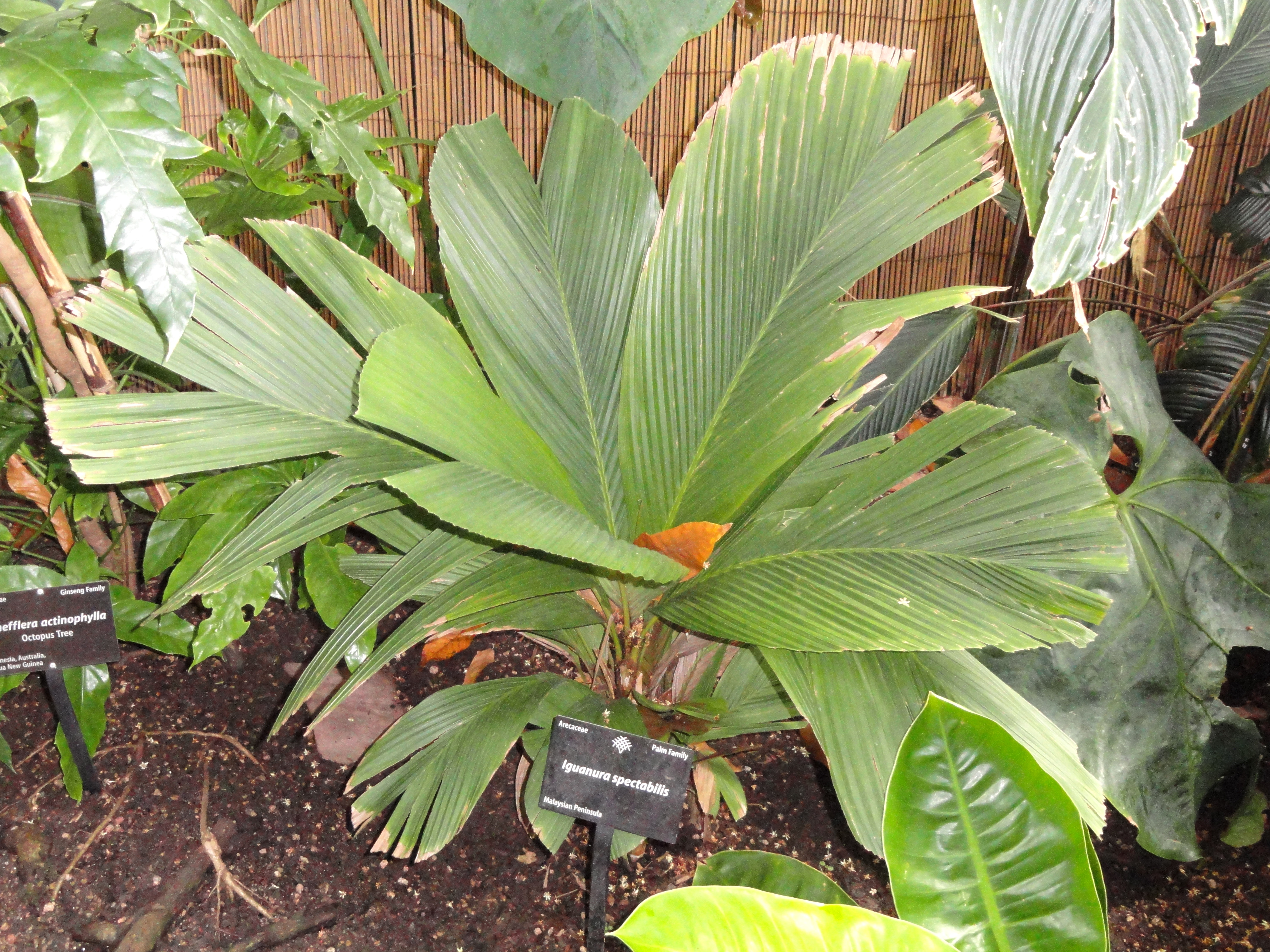 Iguanura spectabilis. Botanical specimen in the Denver Botanic Gardens, 1007 York Street, Denver, Colorado, USA.